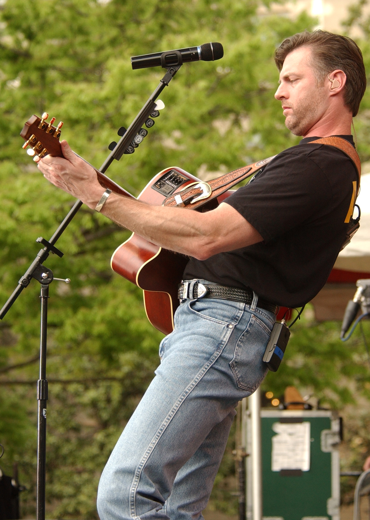 Pentagon, Washington, D.C. (Apr. 16, 2003) — Country music star Darryl Worley performs his hit song, “Have You Forgotten” during a concert held at the Pentagon in support of our troops. The American Forces Radio and Television Service (AFRTS) aired the show live through out the world.